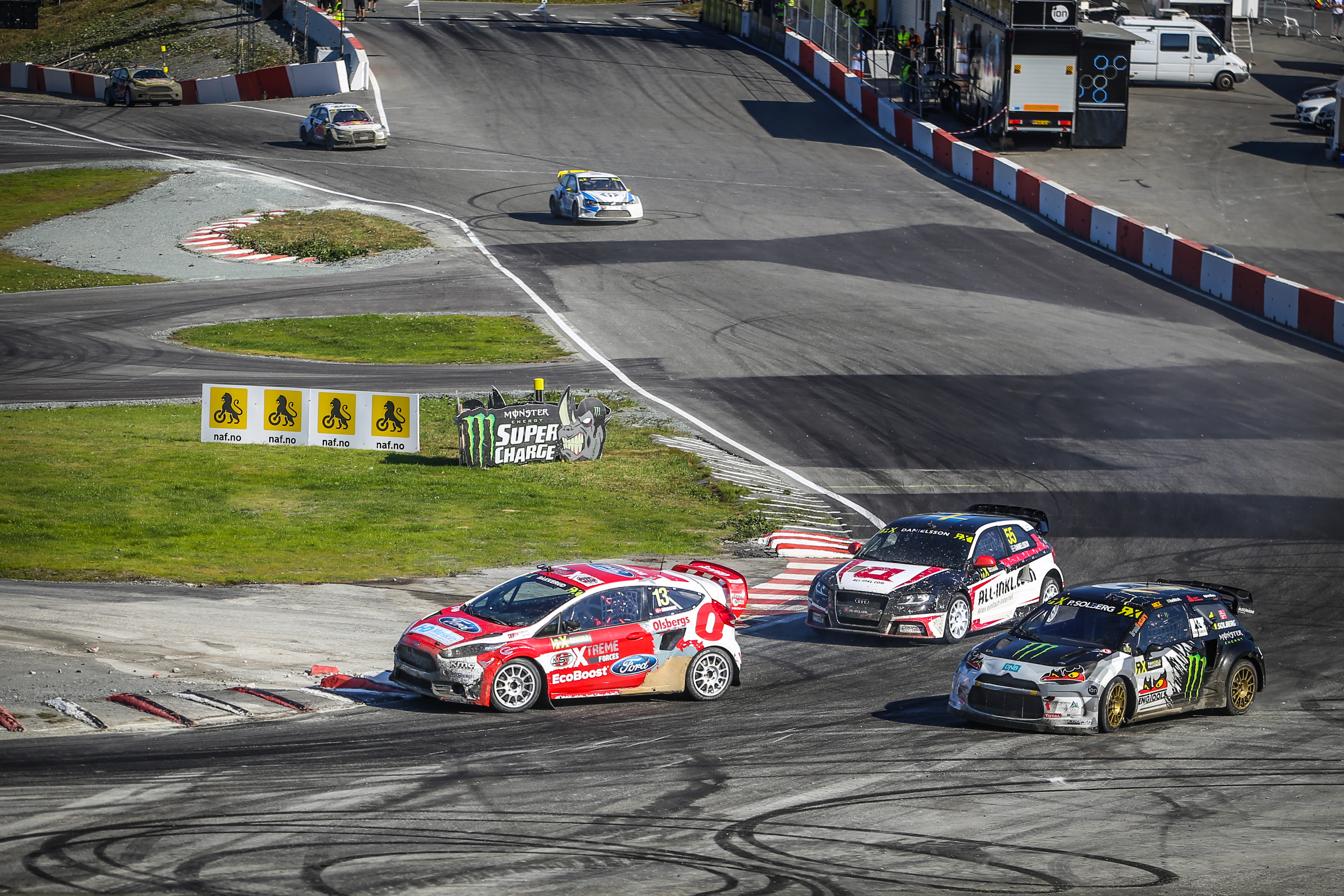 Semi-final #2 of Round 8 of the 2015 FIA World Rallycross Championship at Lånkebanen, Norway. Andreas Bakkerud (Ford Fiesta), followed by Petter Solberg (Citroën DS3), Alx Danielsson (Audi S3), P-G Andersson (VW Polo R), Mattias Ekström (Audi S1) and Timur Timerzyanov (Ford Fiesta).